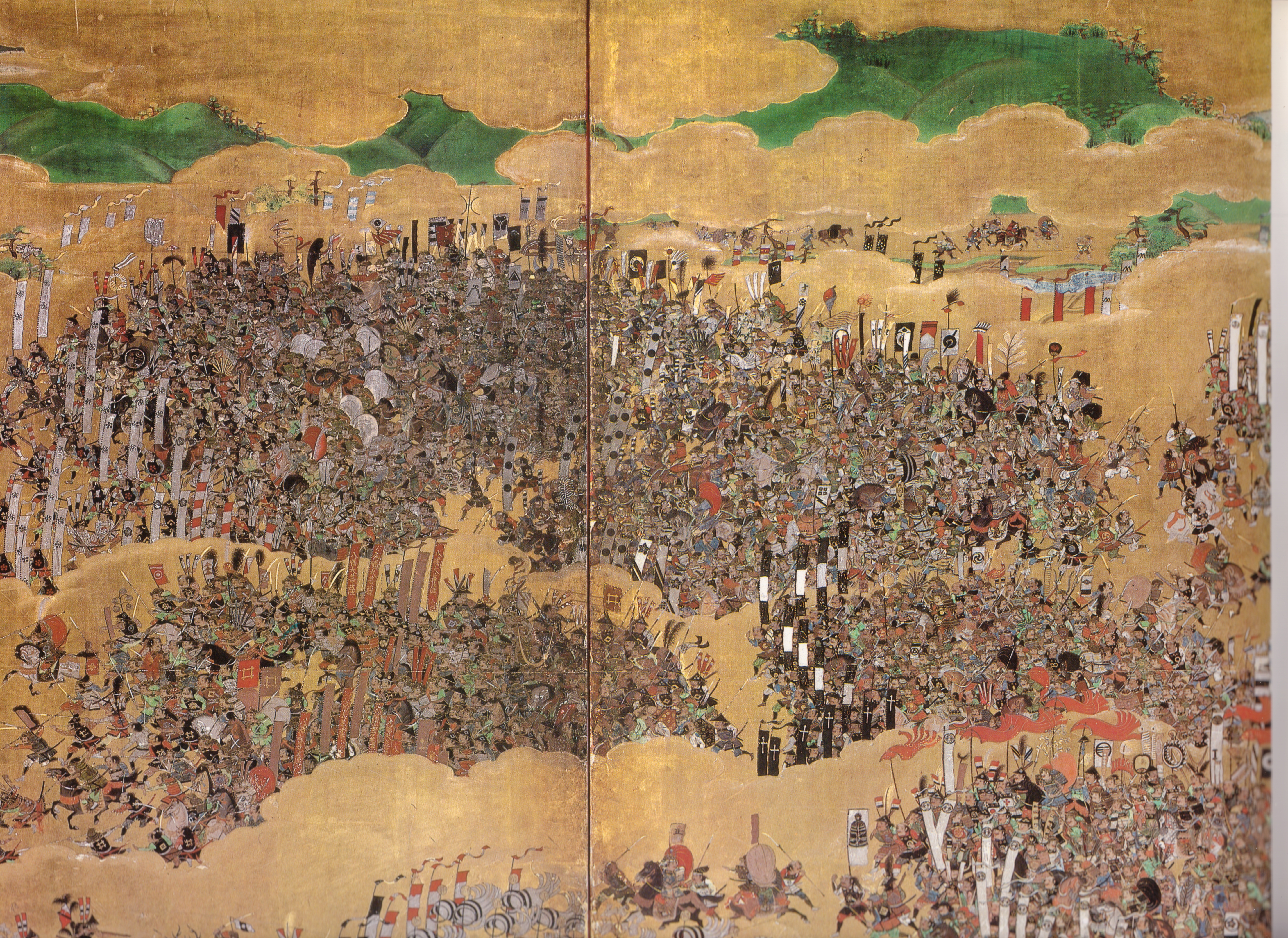 Osaka Summer Campaign (1615)